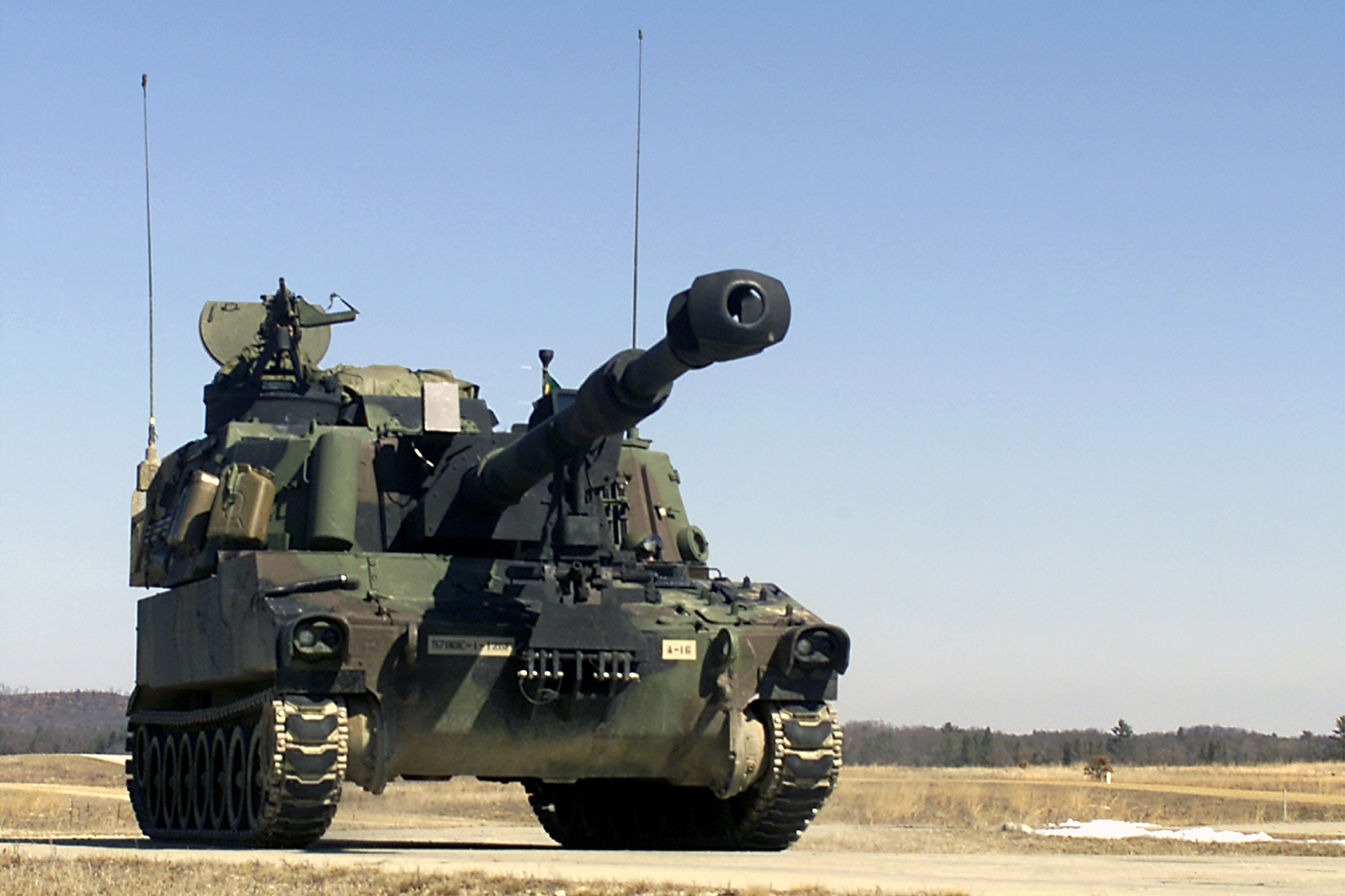 Front view of a M109 A6 Paladin Self-propelled Howitzer